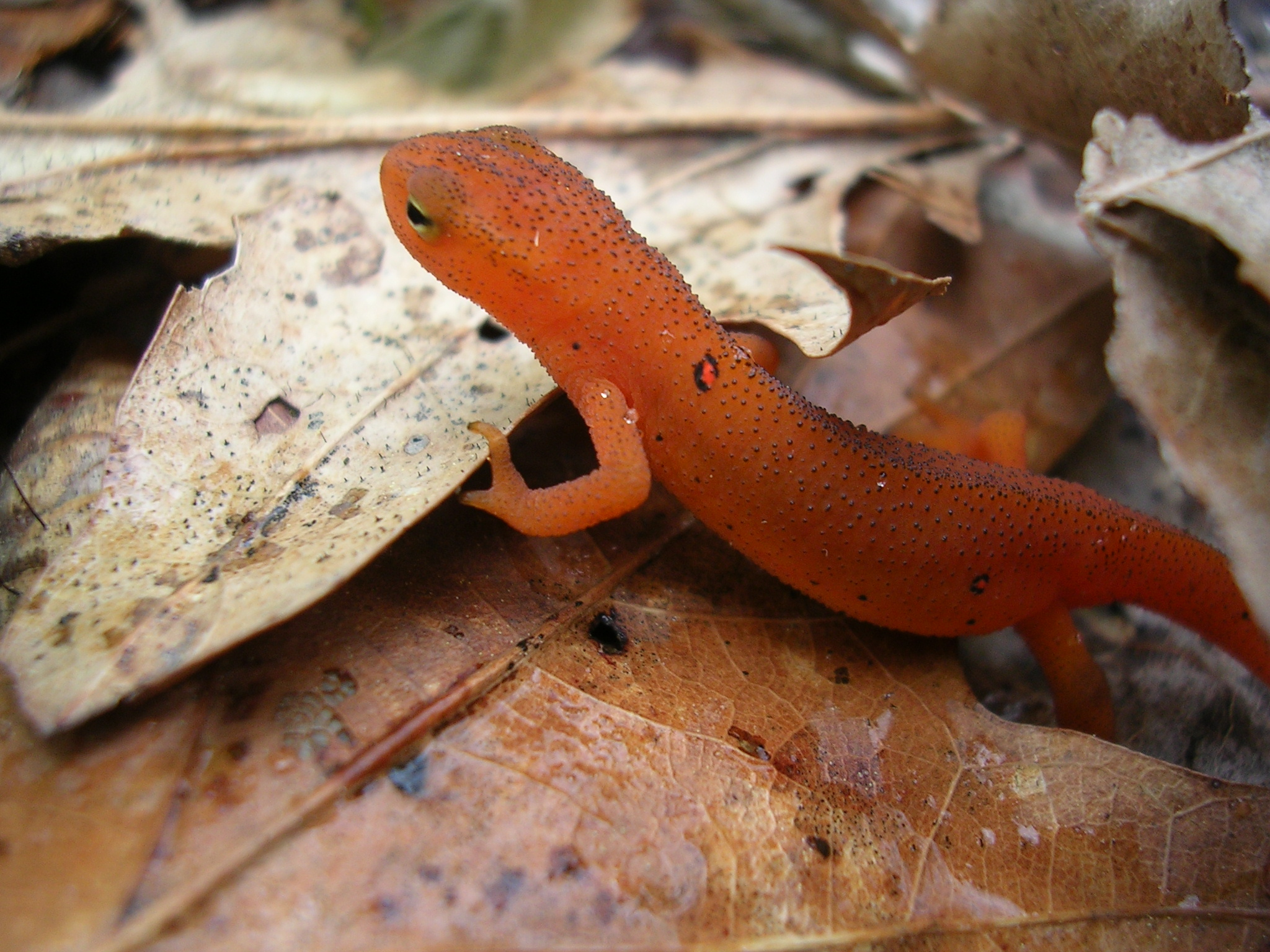 Red-spotted newt navigating over forest debris in Rindge, NH.